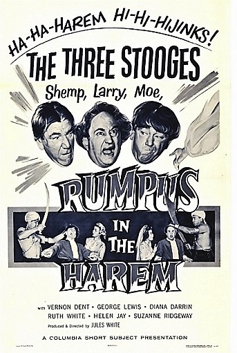 Poster del film Rumpus in the Harem